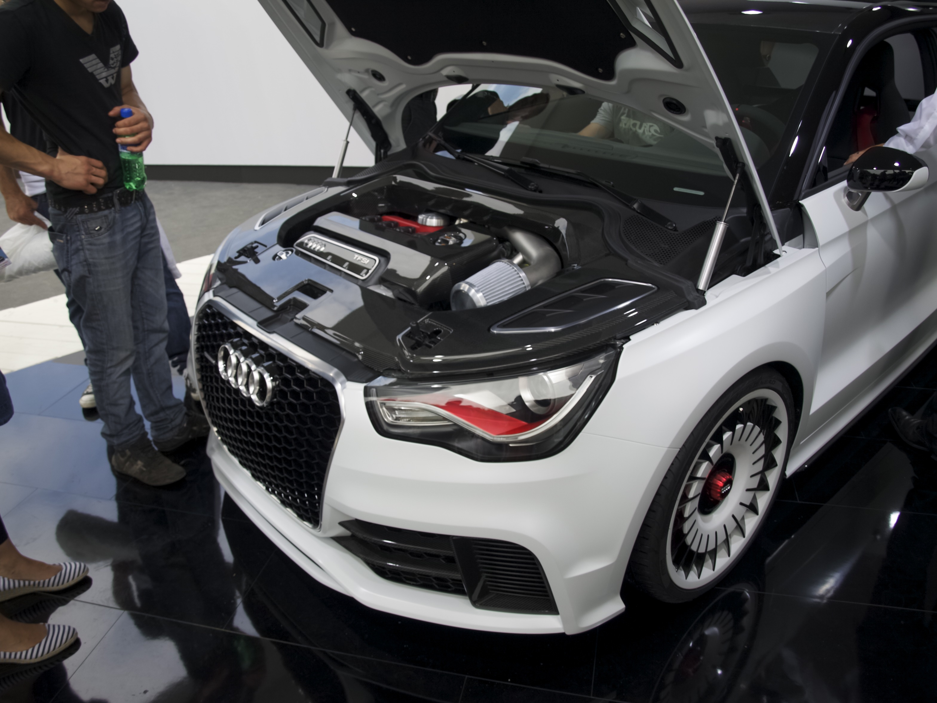 Audi A1 clubsport quattro engine (Wörthersee 2011)